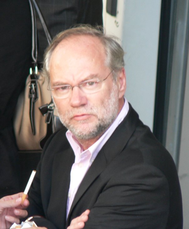 Laurent Joffrin during the forum Vive la politique of French daily newspaper Libération, on 15 september 2007.